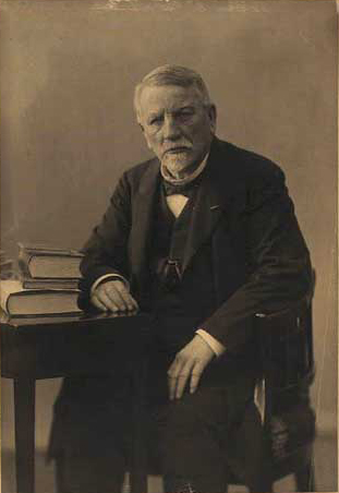 Holger Frederik Rørdam